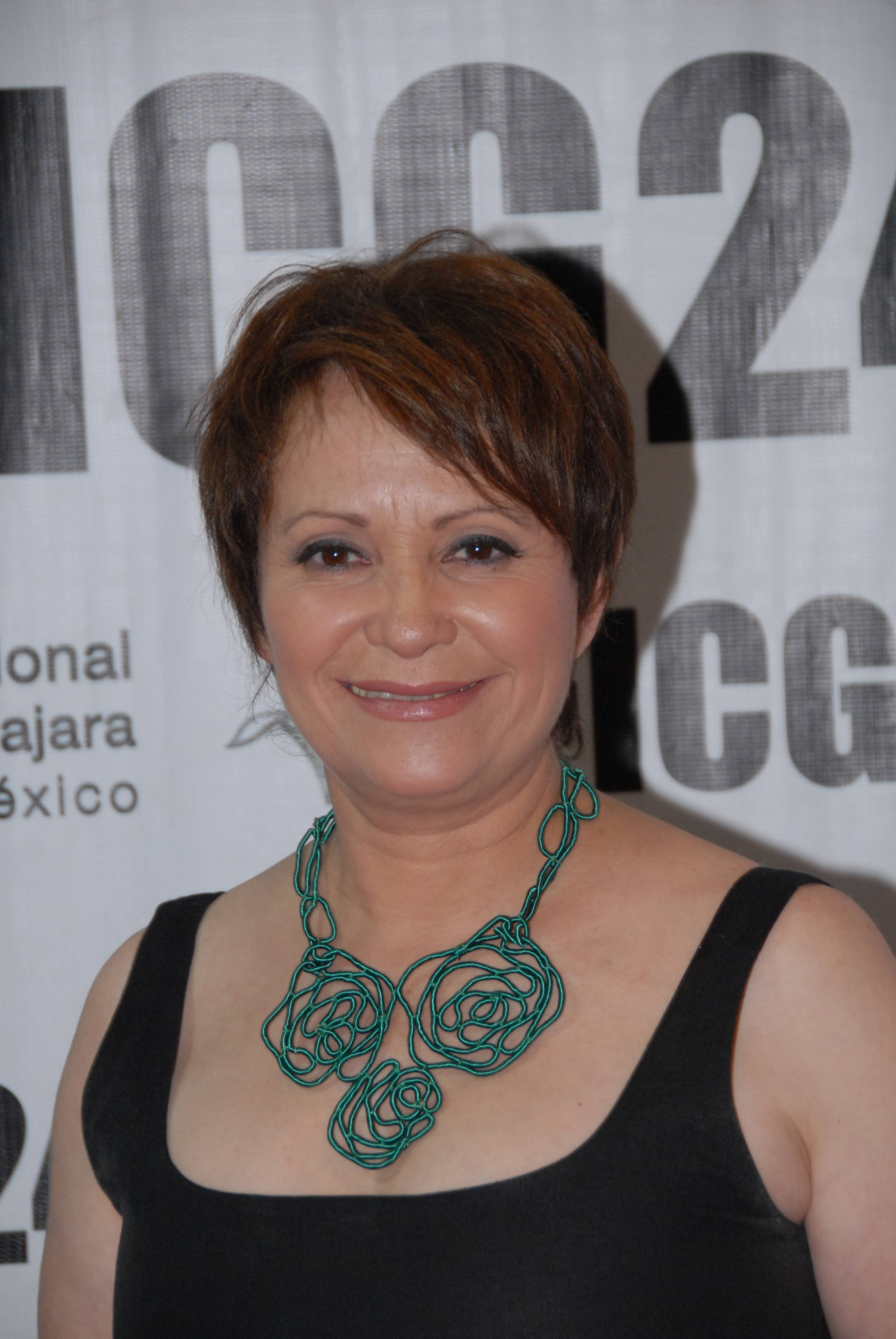 Actress Adriana Barraza – en la alfombra roja de la película sin Nombre